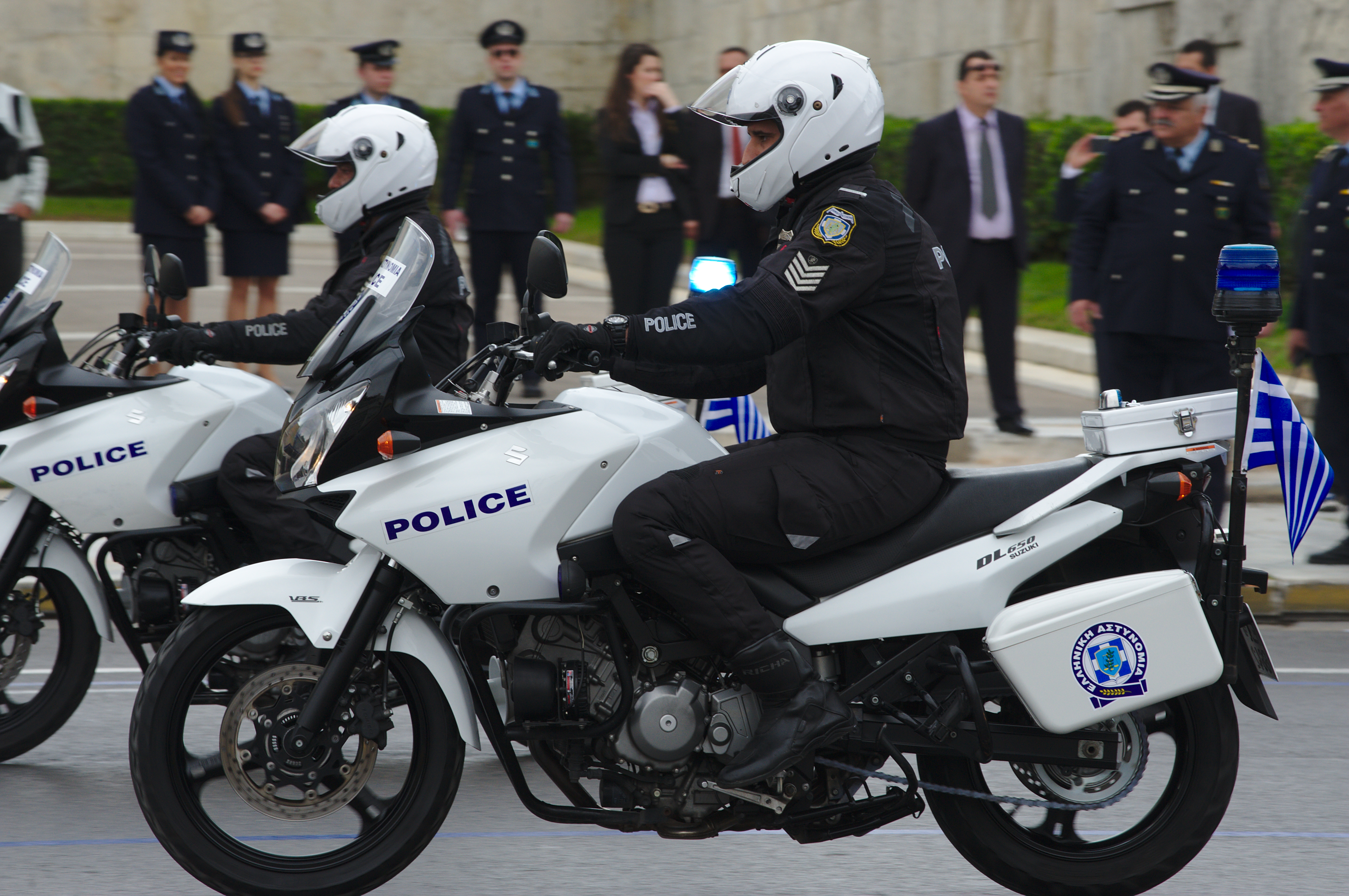 Greek Z squad police officer at March 25 parade Athens